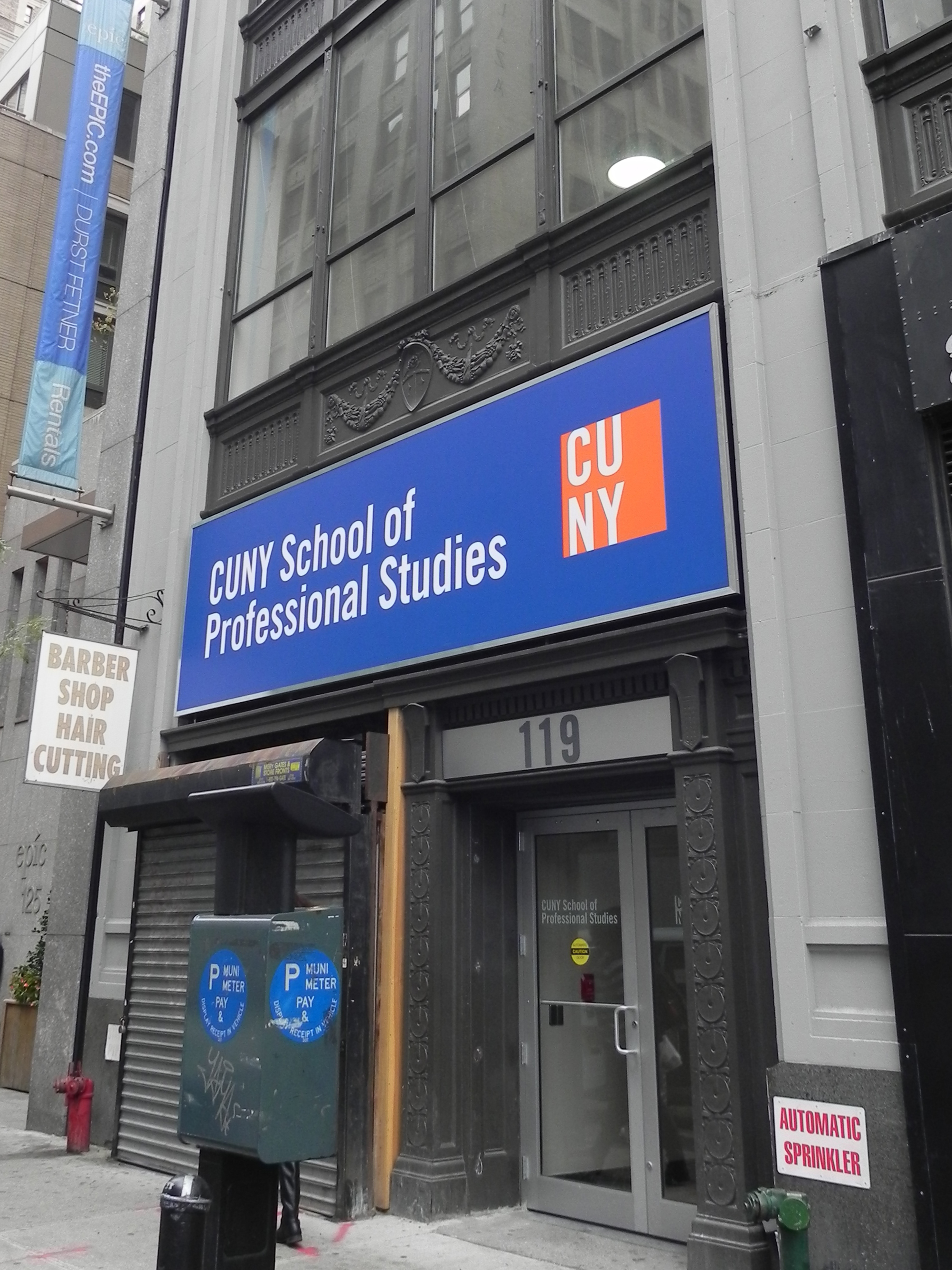 CUNY School of Professional Studies campus, opened 2013, at 119 W. 31st Street in Manhattan, NY.